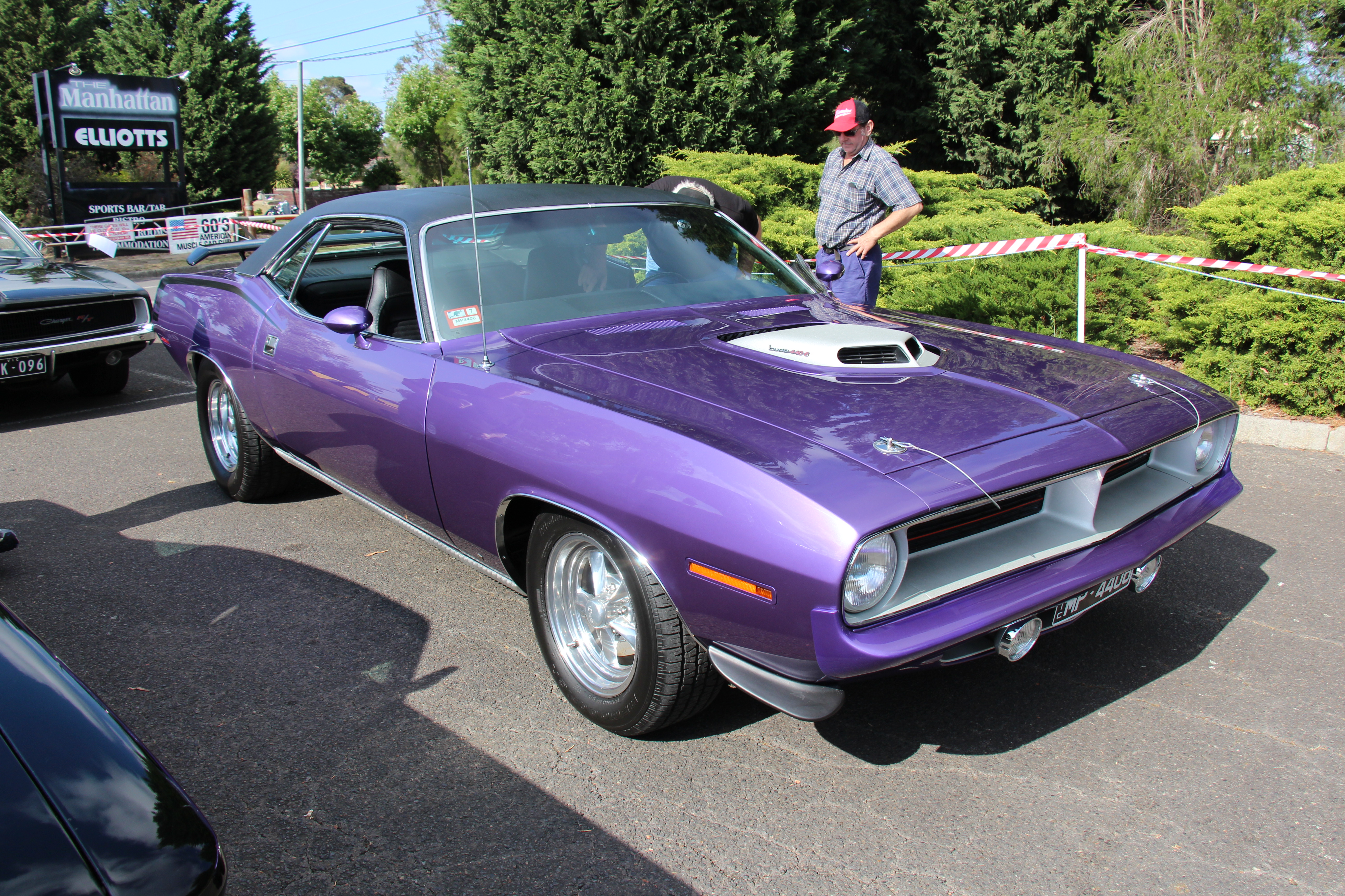 Barracudas were built from 1964-74. The 2nd generation, the 1970–1974 E-body Barracuda, no longer Valiant-based, was available as a coupe and a convertible, both of which were very different from the previous models. Sharing this platform was also the Dodge Challenger; however, no sheet metal interchanged between the two cars. There was a base Barracuda, the Gran Coupe was the luxury model and the performance car was called the Cuda, available with 383 Magnum, 440ci 4-barrel Super Commando, the 440ci 6-barrel Super Commando Six Pak, and the 426ci Hemi. This car also has the optional Shaker Hood, option N96